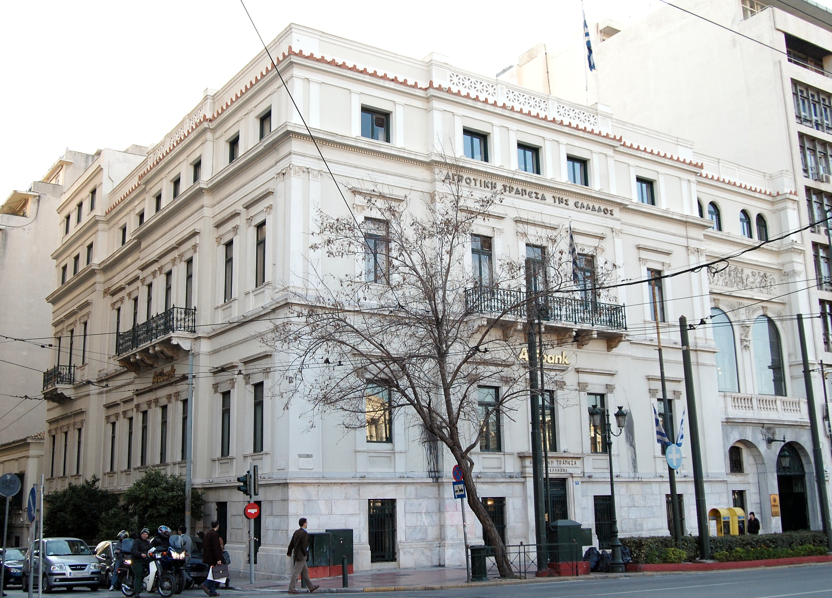 The Sarpieri mansion in downtown Athens. Built in 1880, it was the original building of the Agricultural Bank of Greece (ATEBank). It is right opposite to the National Bank of Greece building.